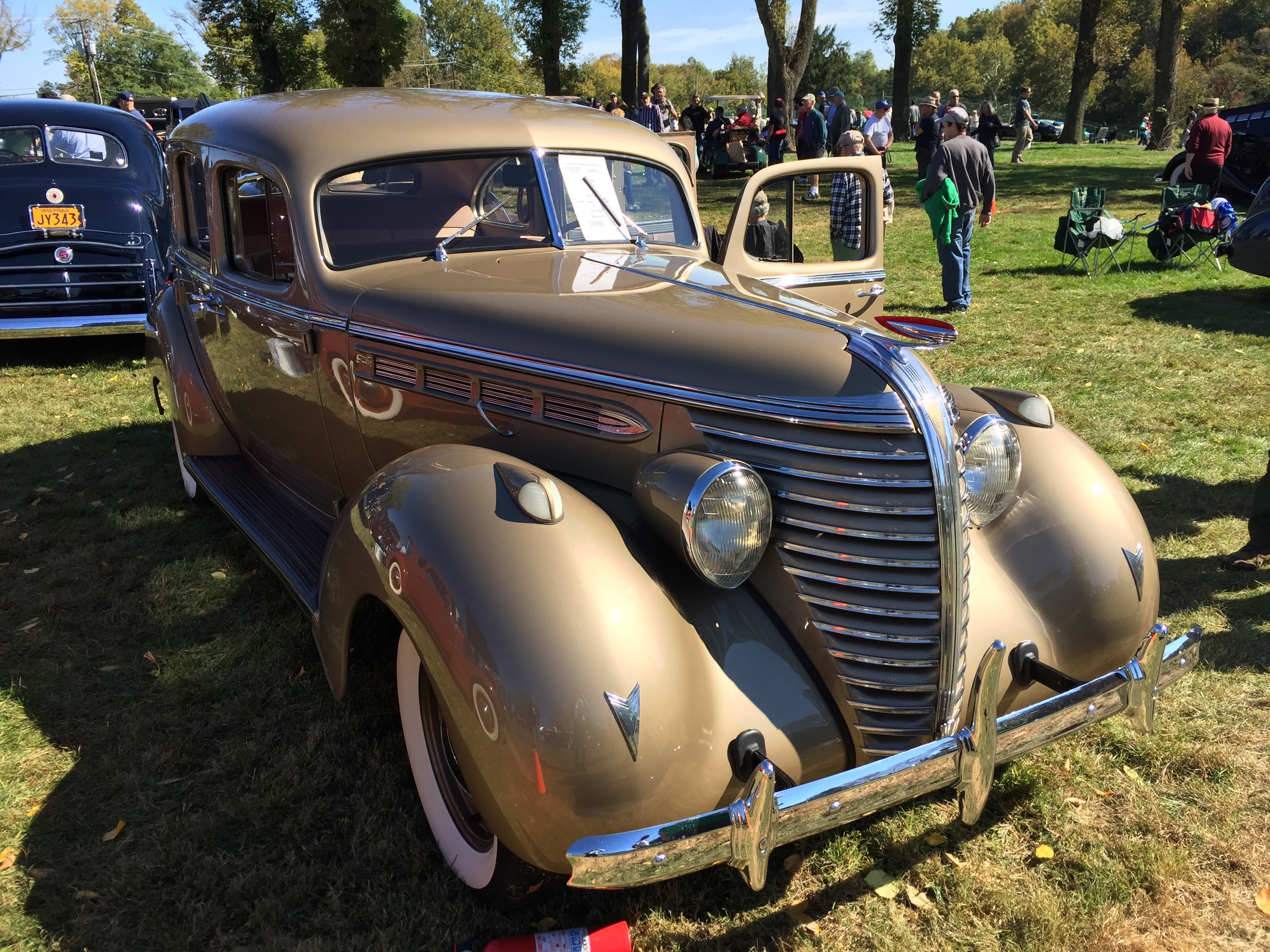 1938 Hudson four-door sedan. This model features a 112-inch wheelbase and a 175-cubic-inch L-head straight six-cylinder engine. Picture taken on the show field of the Antique Automobile Club of America (AACA) 2015 Hershey meet that is held every October in Pennsylvania.